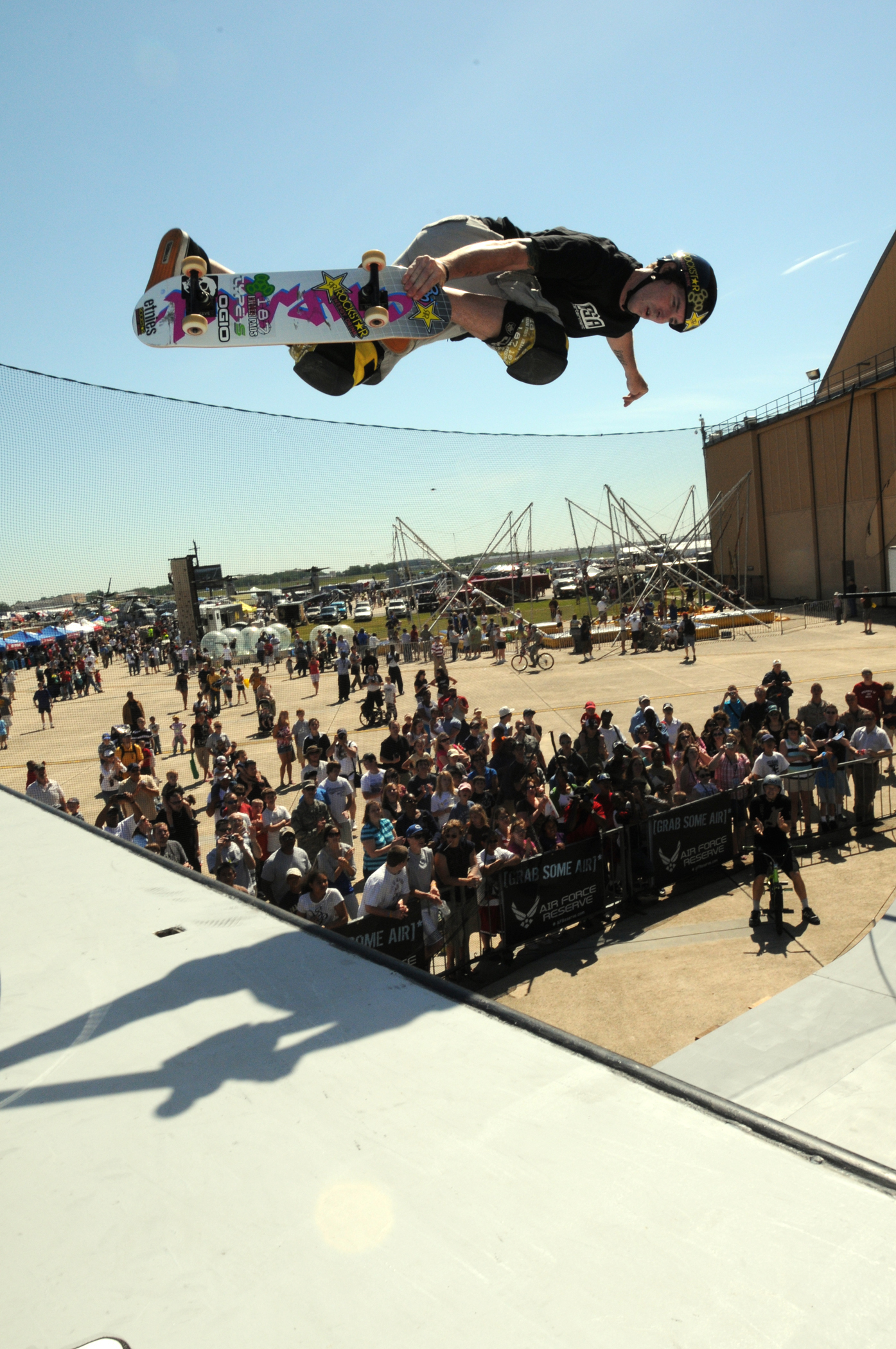 JOINT BASE ANDREWS, Md.-- Anthony Furlong, a team skateboarder for ASA Entertainment, performs an aerial maneuver at the Joint Service Open House here May 15. Mr. Furlong joins other extreme athletes in supporting the Air Force Reserve recruiting campaign, "Grab Some Air," which aims at attracting an active demographic of 17-34 years old to the Reserve. The JSOH allows members of the public an excellent opportunity to meet and interact with the men and women of the Armed Forces and to show them America’s skilled military. (U.S. Air Force photo by Staff Sgt. Steve Lewis)